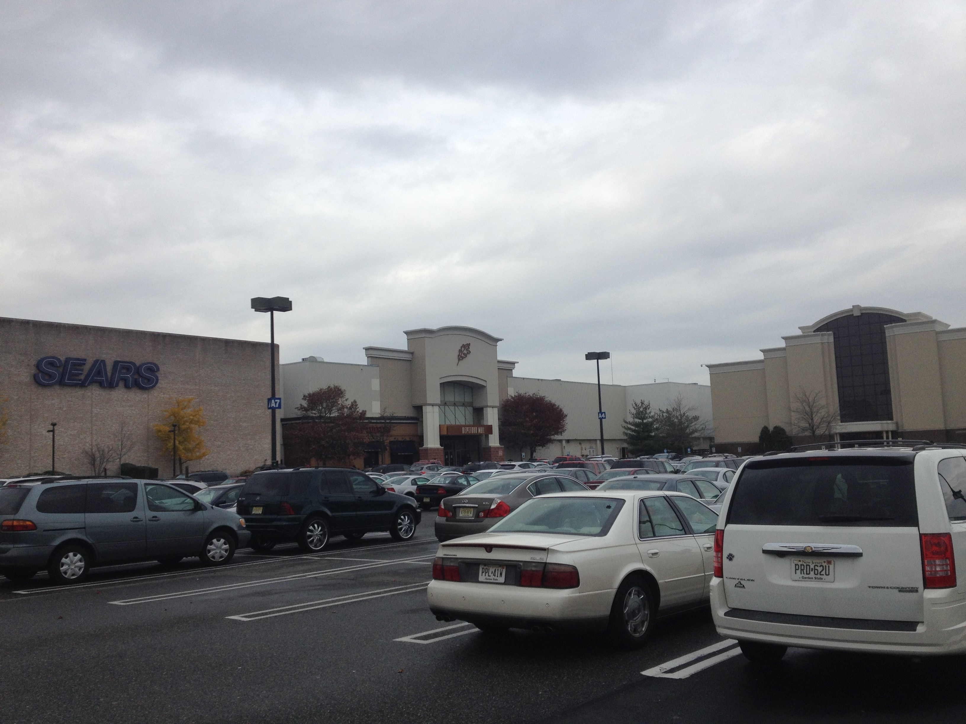 The southeast entrance to the Deptford Mall in Deptford Township, New Jersey.